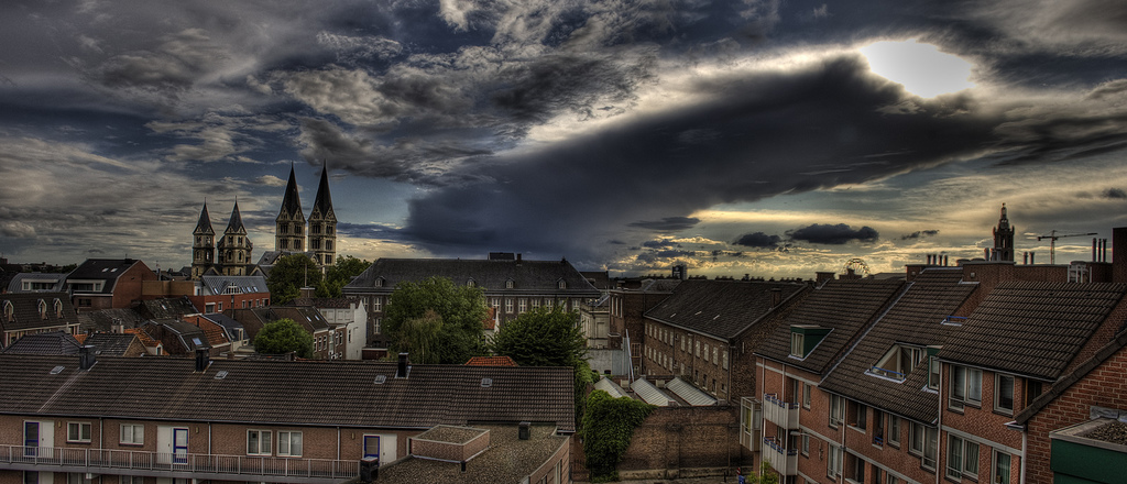 Panoramic of Roermond, the Netherlands